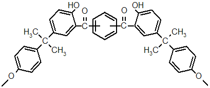 Polyarylate fries rearrangement